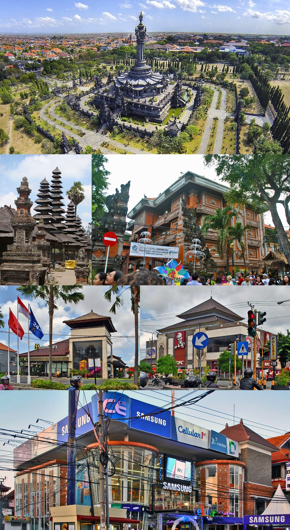 From top, left to right: Bajra Sandhi Monument, Bali Temple, Mayor's office building, Fast food outlets with traditional Balinese architecture, and Cellular superstore in the city center.